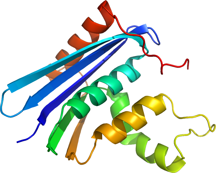 Structure of RNase H (PDB id: 1JL1) generated using PyMol with preset: pretty